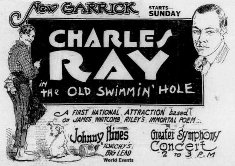 Newspaper advertisement for the American comedy film The Old Swimmin' Hole (1921) with Charles Ray, on page 7 of the March 26, 1921 Duluth Herald.